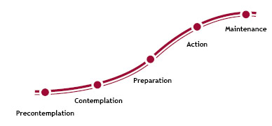 This is a graphic representation of the "Stages of change" in the transtheoretical model of behavior change.